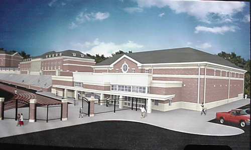 New gym at Withrow High School, Cincinnati, Ohio